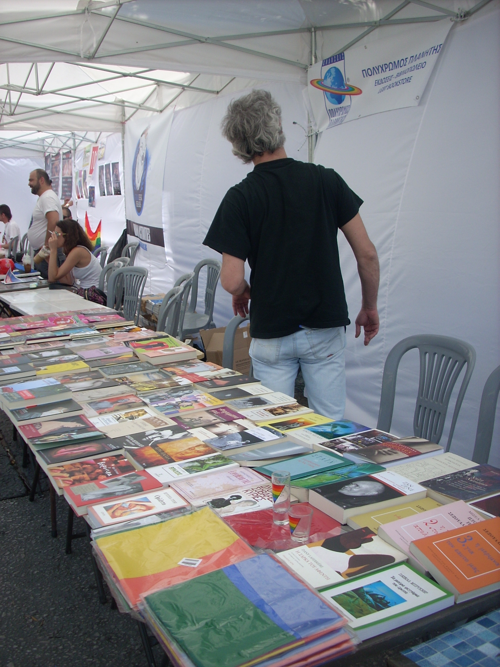 Athens Pride 2009